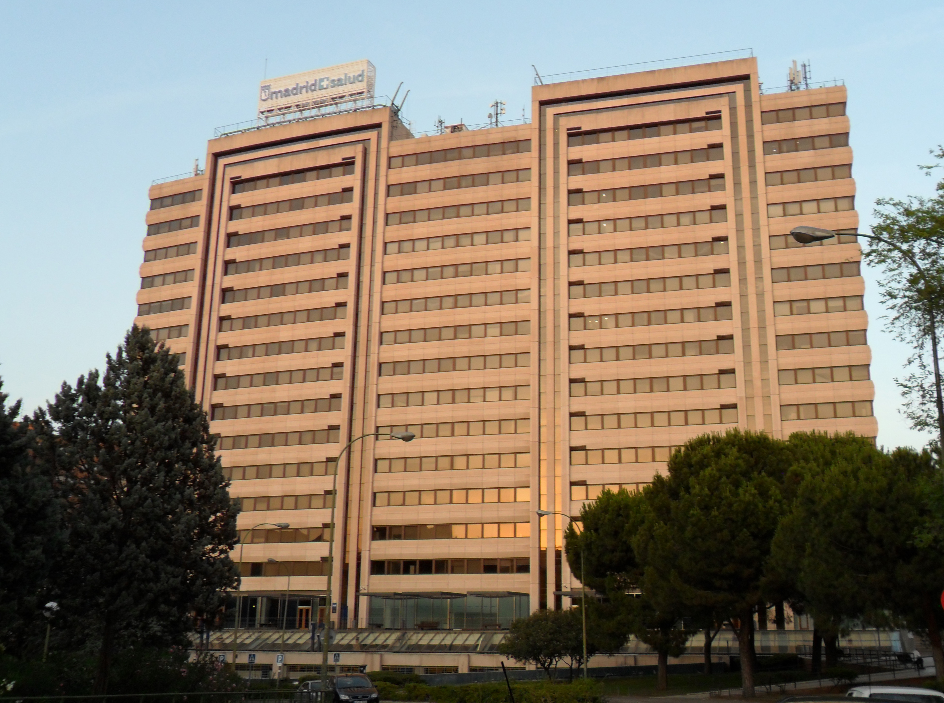 Building at 11-13 Calle de Juan Esplandiú (street) in Madrid (Spain).